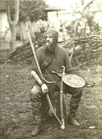 Caucasus: Khevsur [man with shield and armor]. Image description: Kavkaz. Khefsur.